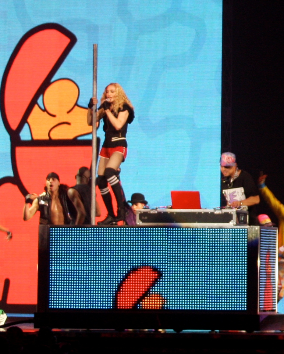 Into the groove